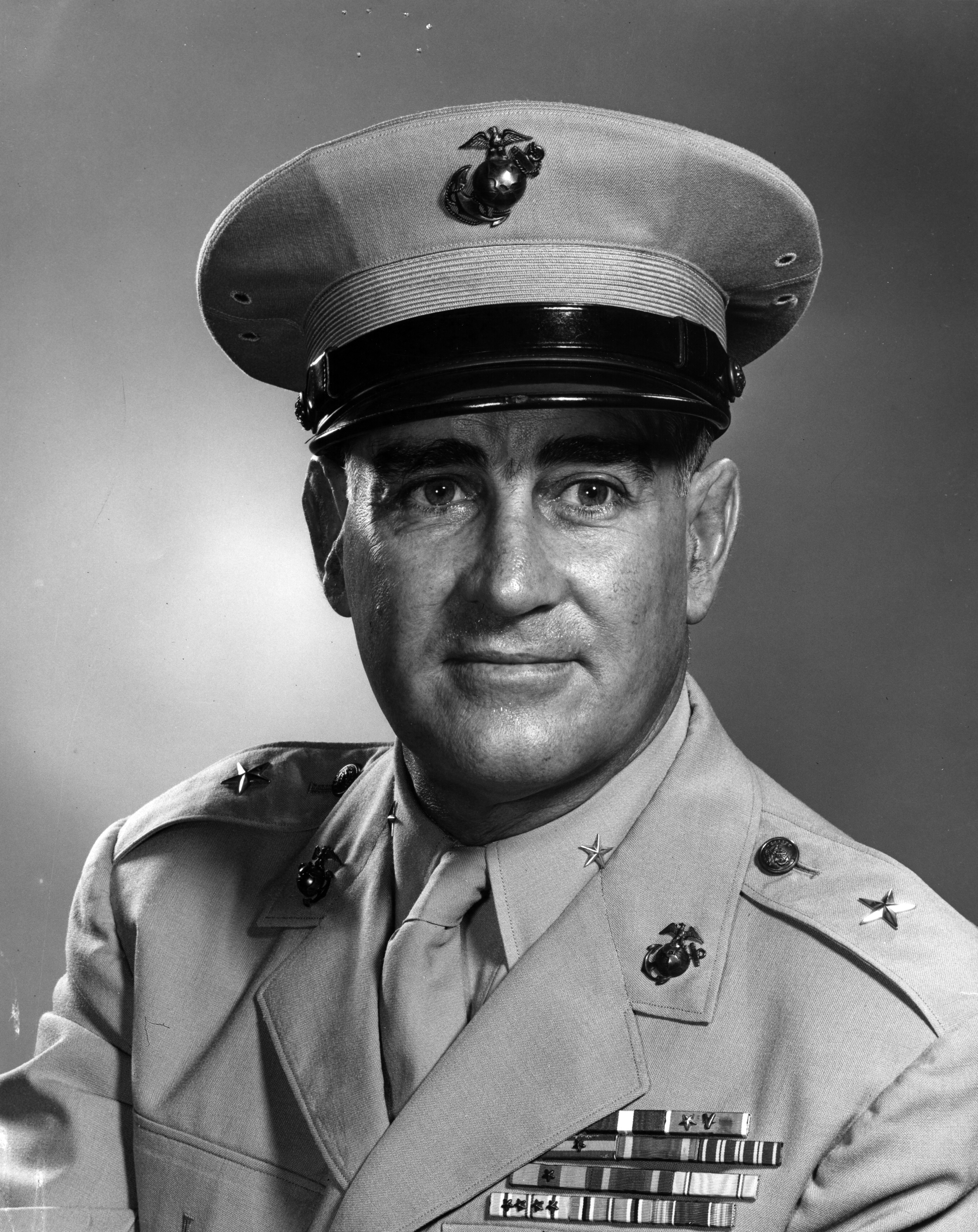 Arthur Howard Butler (July 17, 1903 - April 24, 1972) was a highly decorated officer in the United States Marine Corps with the rank of Major General. A veteran of World War II, he distinguished himself as Commanding officer, 21st Marine Regiment during the Recapture of Guam in July 1944 and was decorated with the Navy Cross, the United States military's second-highest decoration awarded for valor in combat.